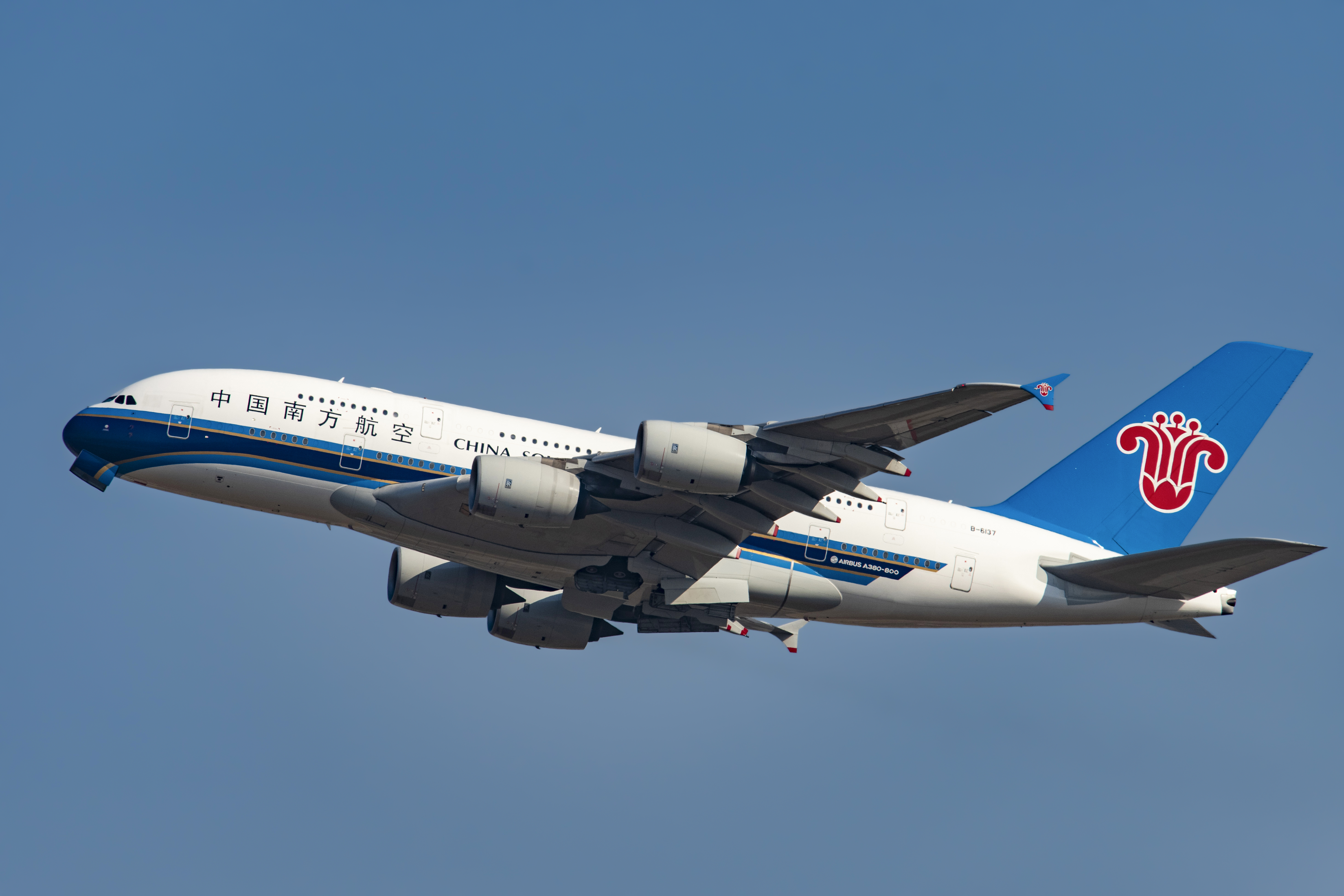 Nanfang 3106 to Guangzhou.